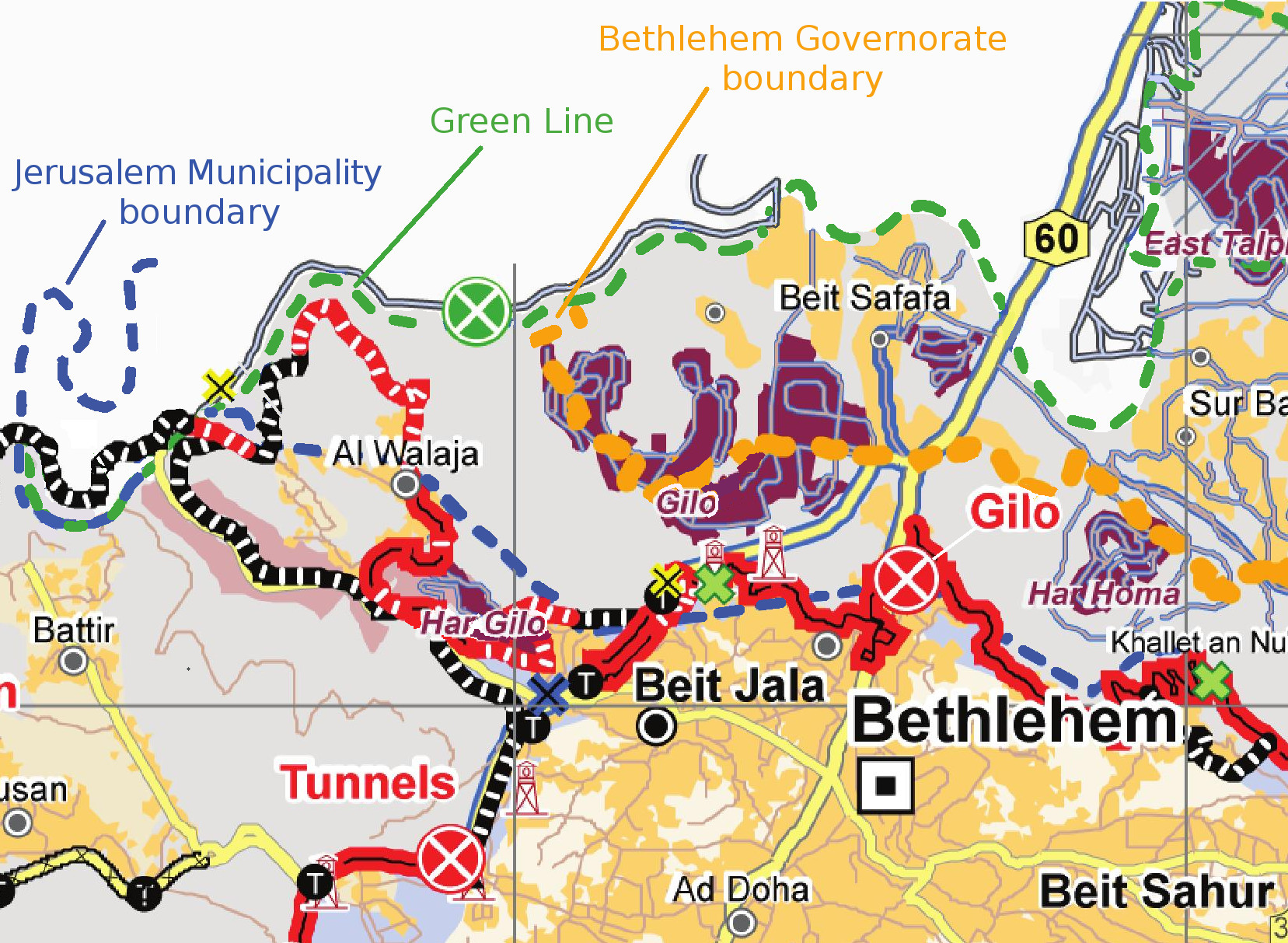 Walaja Barrier 2011 Legend